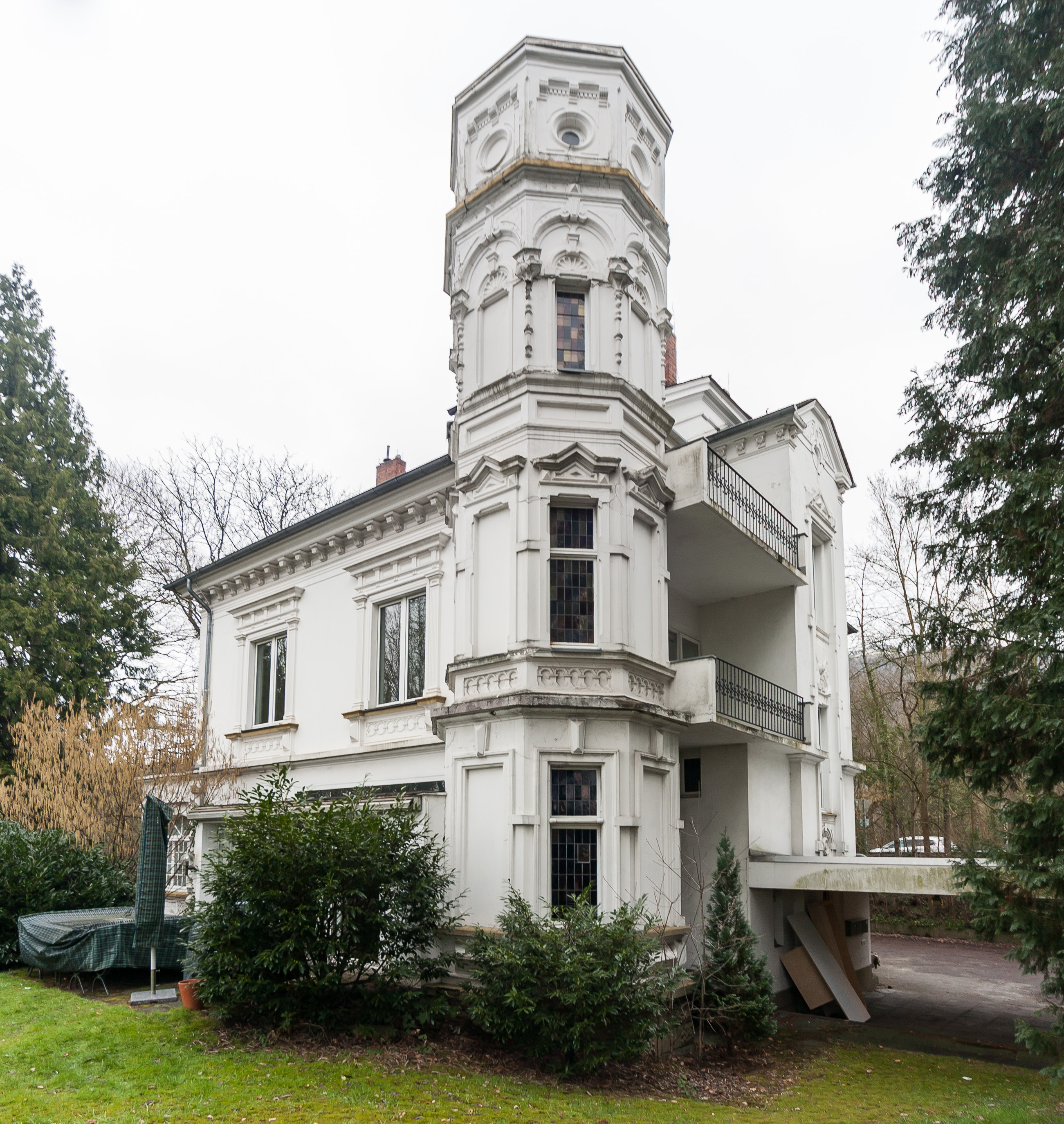 Heritage protected building, Am Lessing 6, Königswinter This image shows a heritage building in Germany, located in the North Rhine-Westphalian city Königswinter (no. A 348).